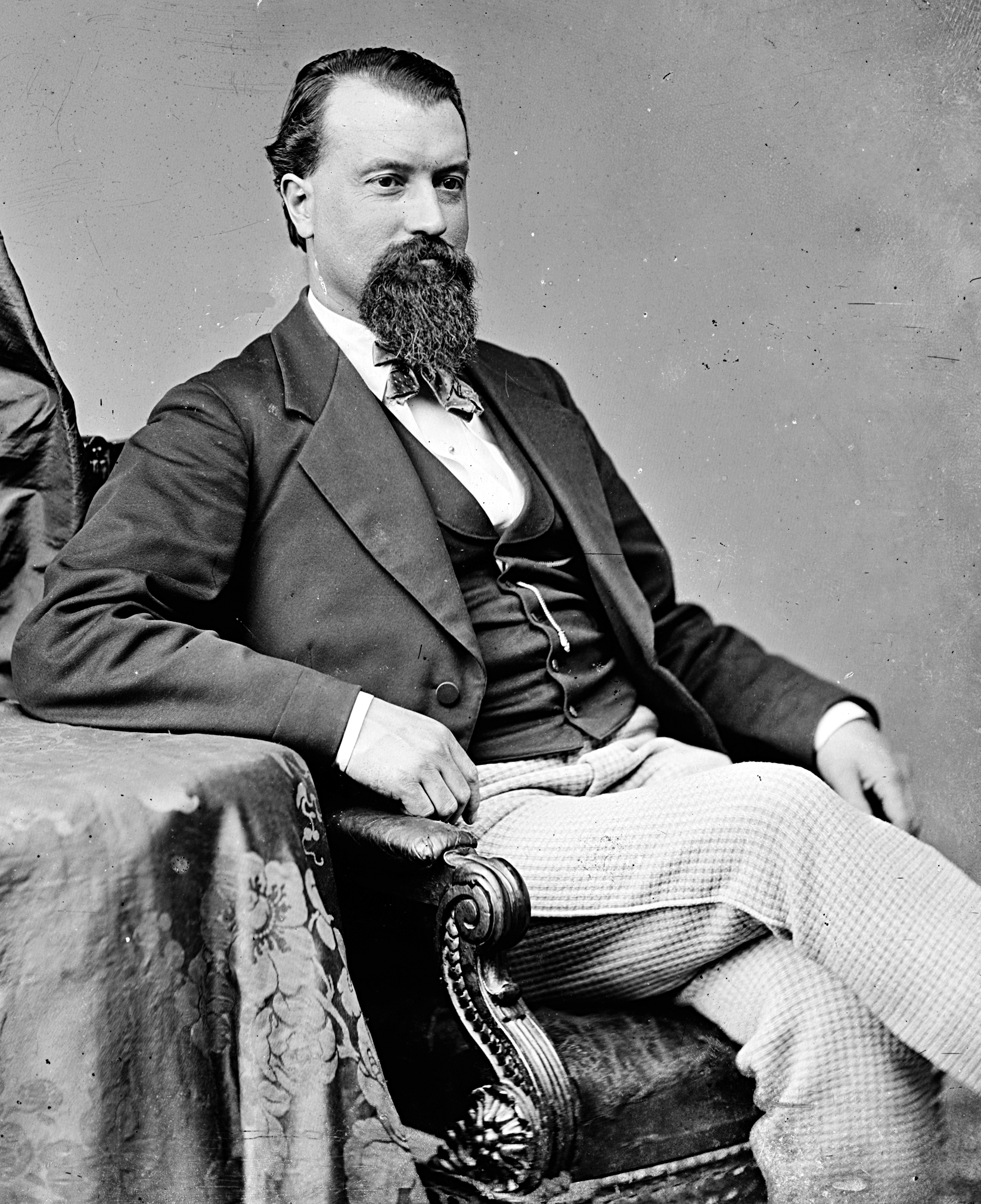 Charles H. Porter, US Representative from Virginia - not from New York, as is written in the source